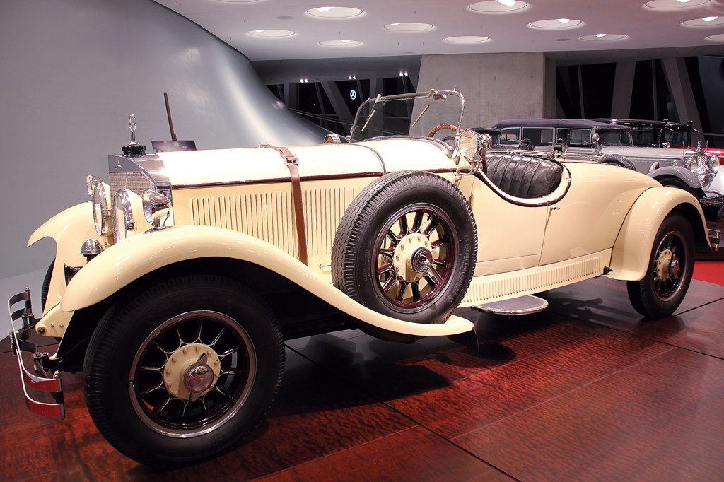 Visit at the Mercedes-Benz Museum, 09.04.2011